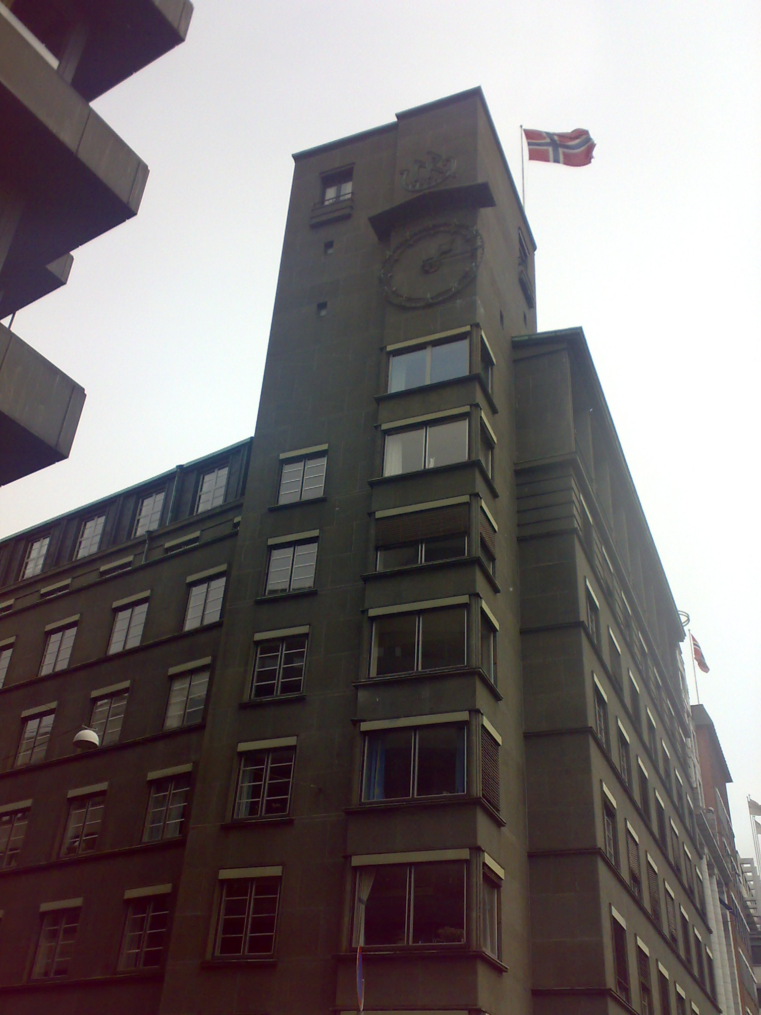 Norwegian Shipowners Association (Norges rederiforbund) in Oslo, Norway